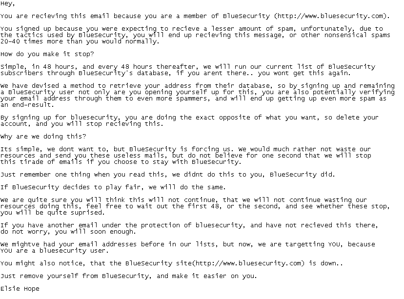 Another variation of the Blue Frog Hoax letters.